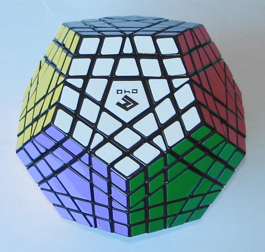 Cube4U's Gigaminx, black body.